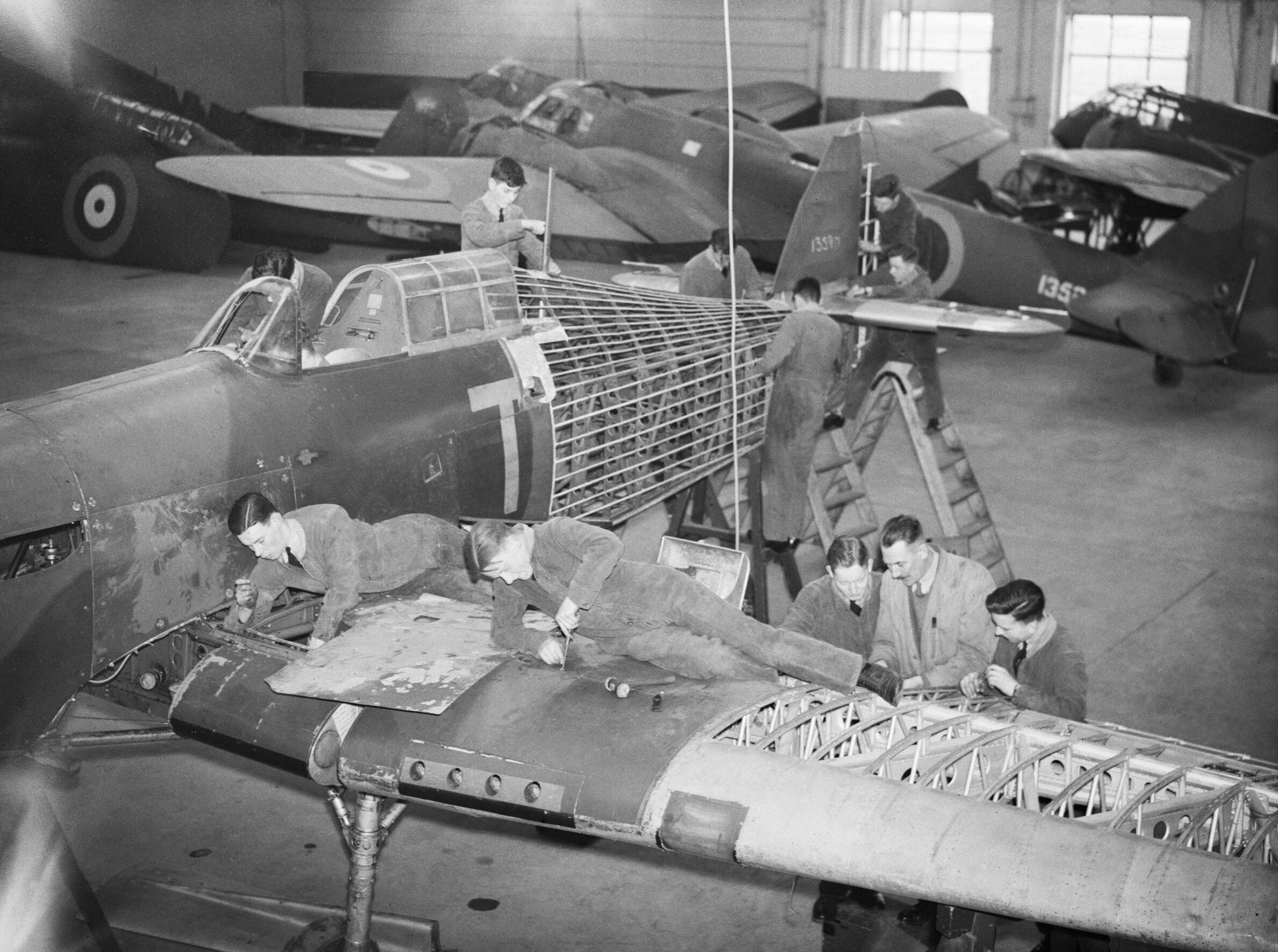 Royal Air Force Training Command, 1939-1940. Trainee airframe fitters are taught repair procedures on Hawker Hurricane instructional airframe, 1359M, in a hangar at No. 2 School of Technical Training, Cosford, Shropshire. The Hurricane (formerly L1995) flew with No. 111 Squadron RAF before crashing during a forced landing in January 1939. More instructional airframes, including Bristol Blenheim Mark Is and a Fairey Battle, can be seen in the background.